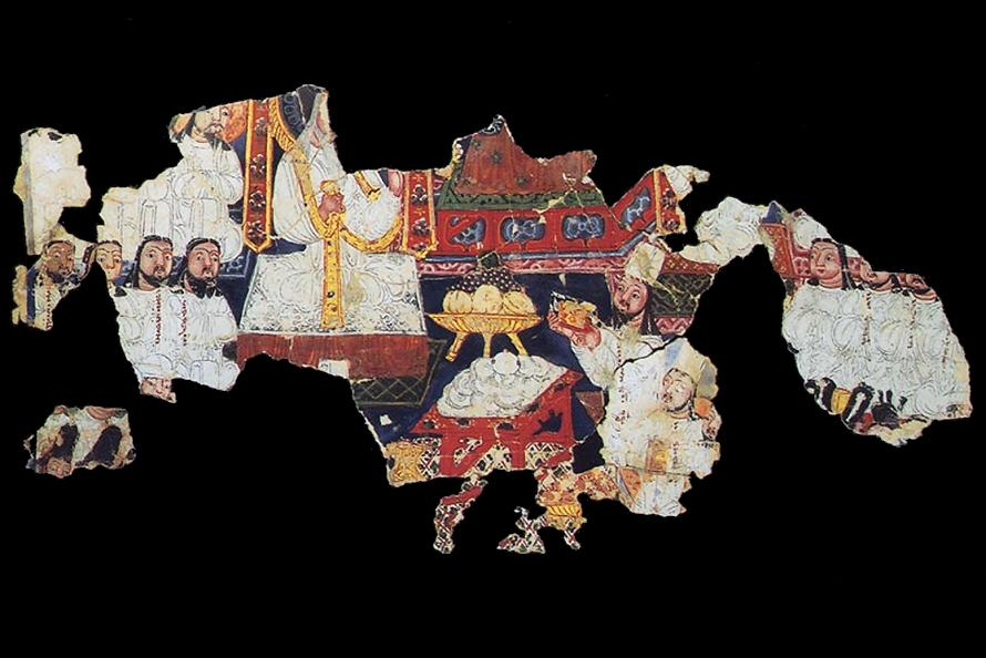 Description 1: Manichaean ritual before an alter, from Turpan Manichaean Illuminated Codex. Museum für Indische Kunst (Berlin), MIK III 4979 verso. Description 2: Bema Scene, full-page book painting shown from picture-viewing direction (H: 12.4 cm, W: 25.2 cm). Fragment of a Turpan Manichaean Illuminated Codex; SMPK, Museum für Indische Kunst (Berlin), MIK III 4979 verso.